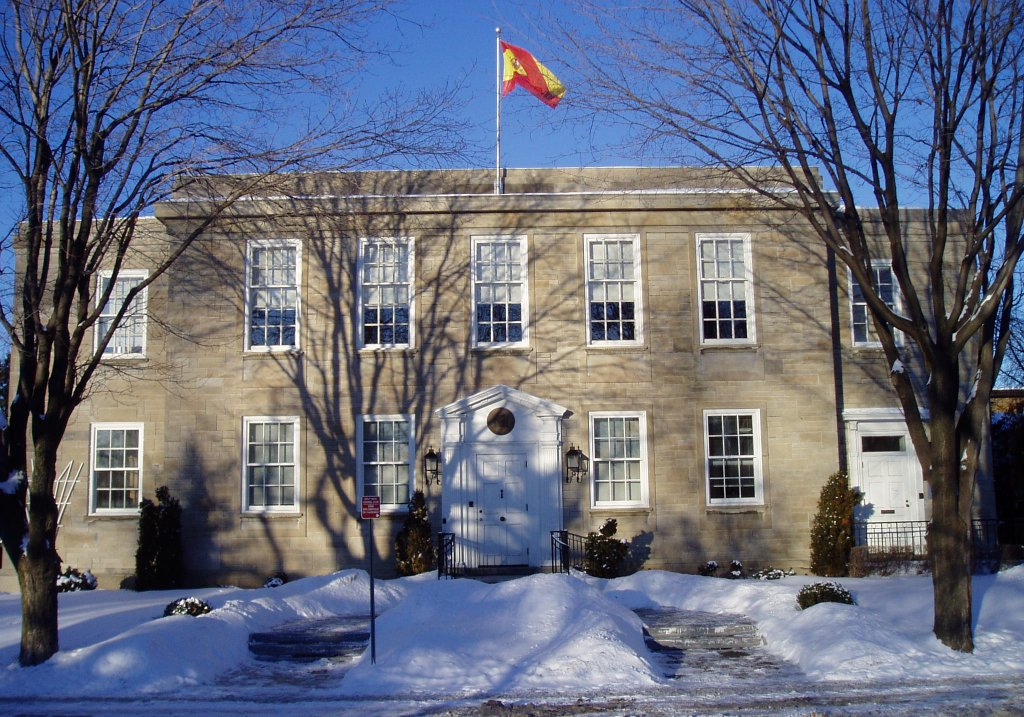 Taken by SimonP in January 2005 The building was constructed in 1958 as the Canadian Headquarters for The Royal College of Physicians & Surgeons. It was designed by the firm of architects Hazelgrove, Lithwick and Lambert. It is a modern structure with two 2 storey, T-shaped, heritage style building. The front portion is clad in Limestone. The front wing has a large designed stairway with marvel treads leading to the main floor with the upper lobby circular skylights. It contains fine engravings and modern Spanish art. The building was included amongst other architecturally interesting and historically significant buildings in Doors Open Ottawa, held June 2 and 3, 2012.[1]